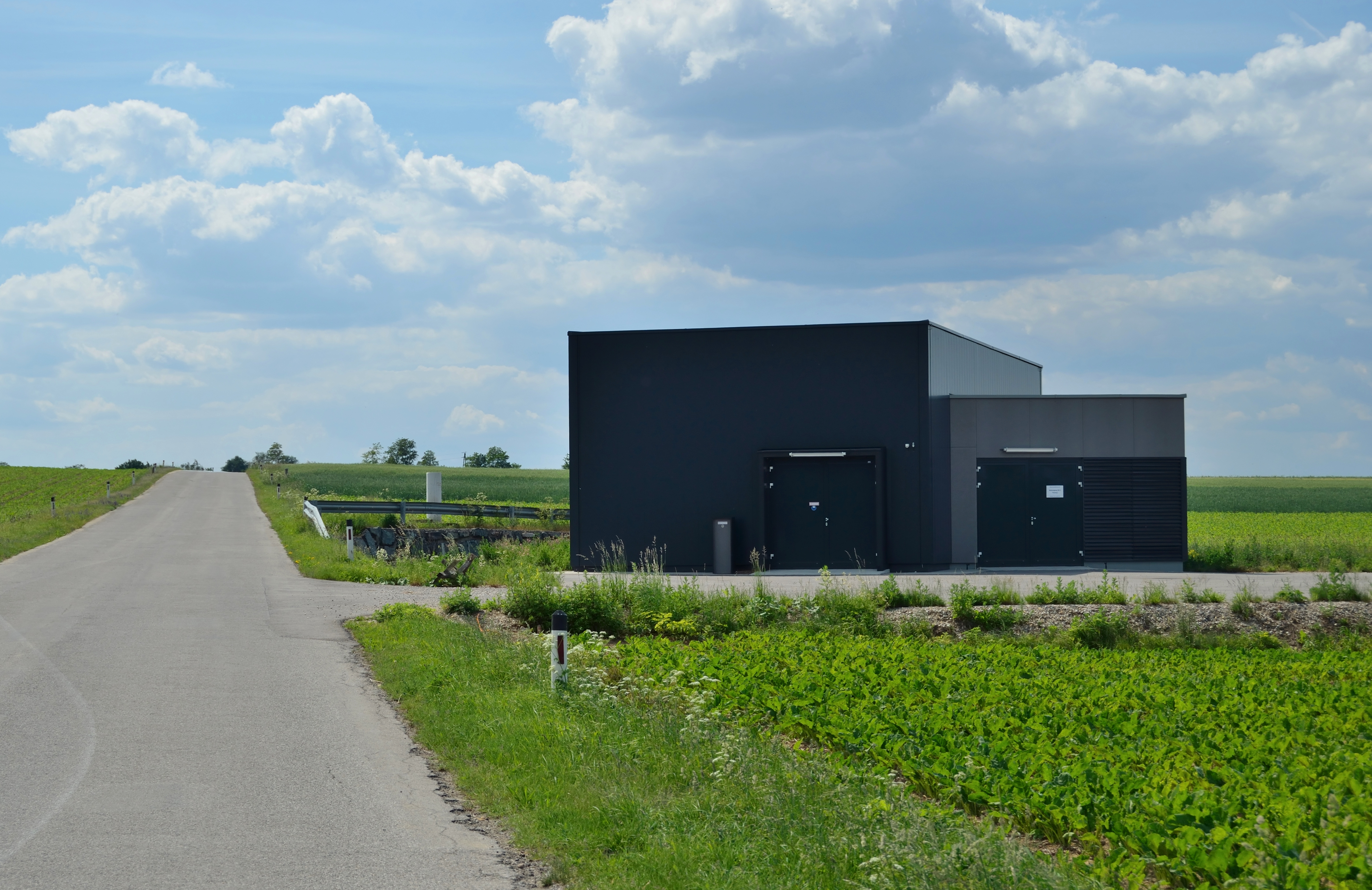 Emergency entry / exit of one of the railway tunnels named Tunnelkette Perschling, part of the new Westbahn in Austria. Here in municipality of Weißenkirchen an der Perschling, Lower Austria.